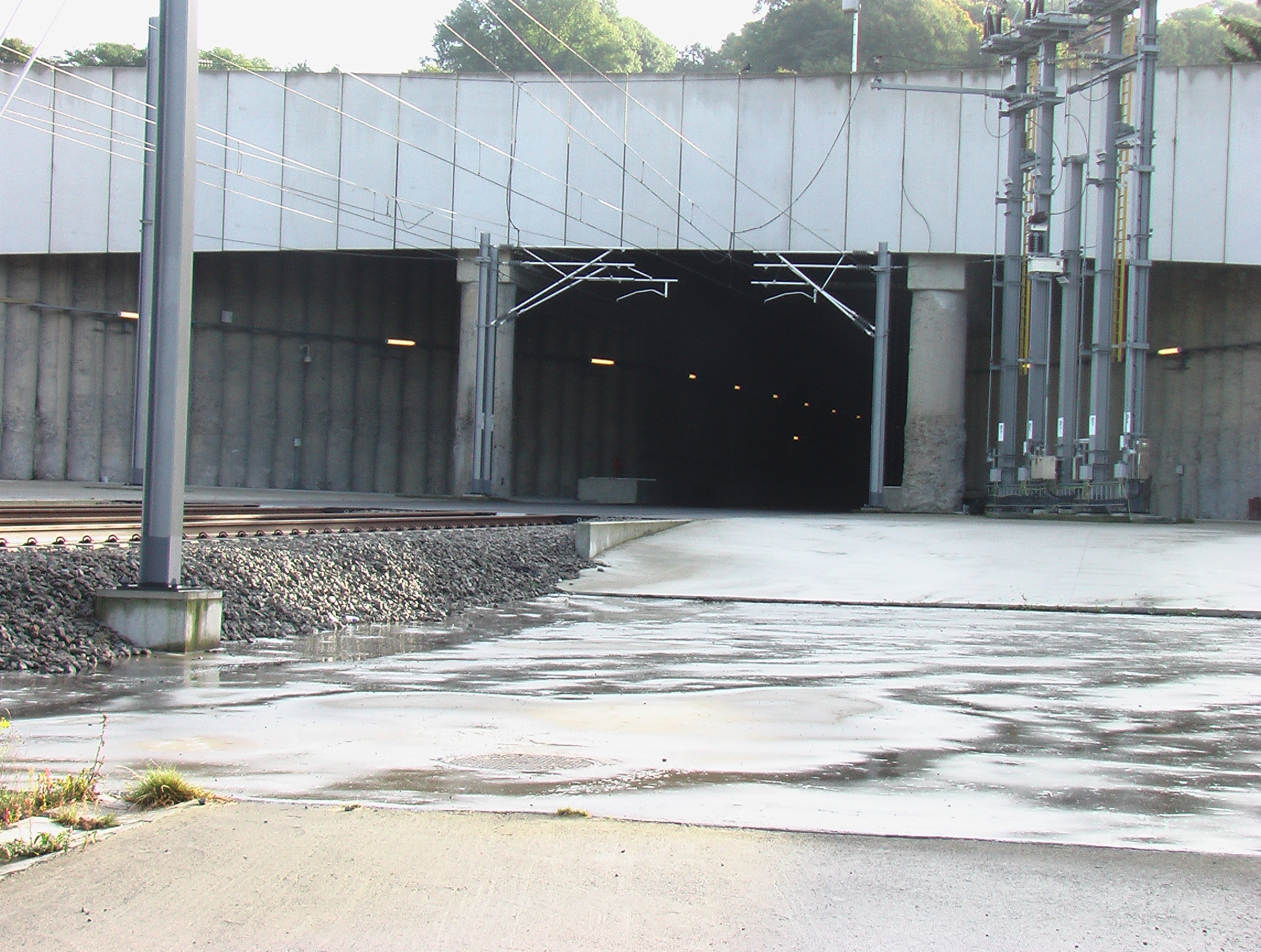 HSL 3 high speed train link, Soumagne Train Tunnel, West entrance, Vaux-sous-Chèvremont, Chaudfontaine, Belgium.